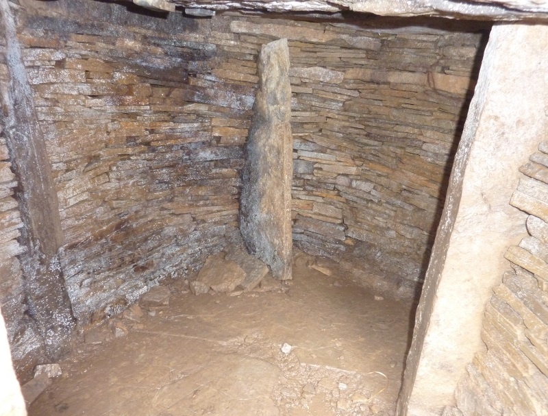 Taversöe Tuick Chambered Cairn, Rousay, Orkney, Scotland. Interior of the little tomb.